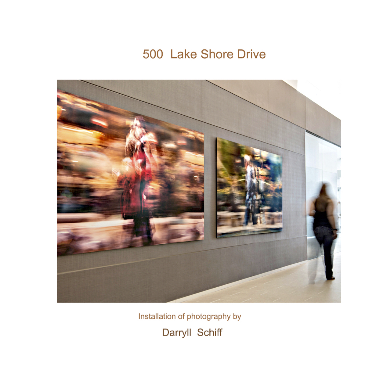 Darryll Schiff's work showcased at the luxury apartment building in Chicago